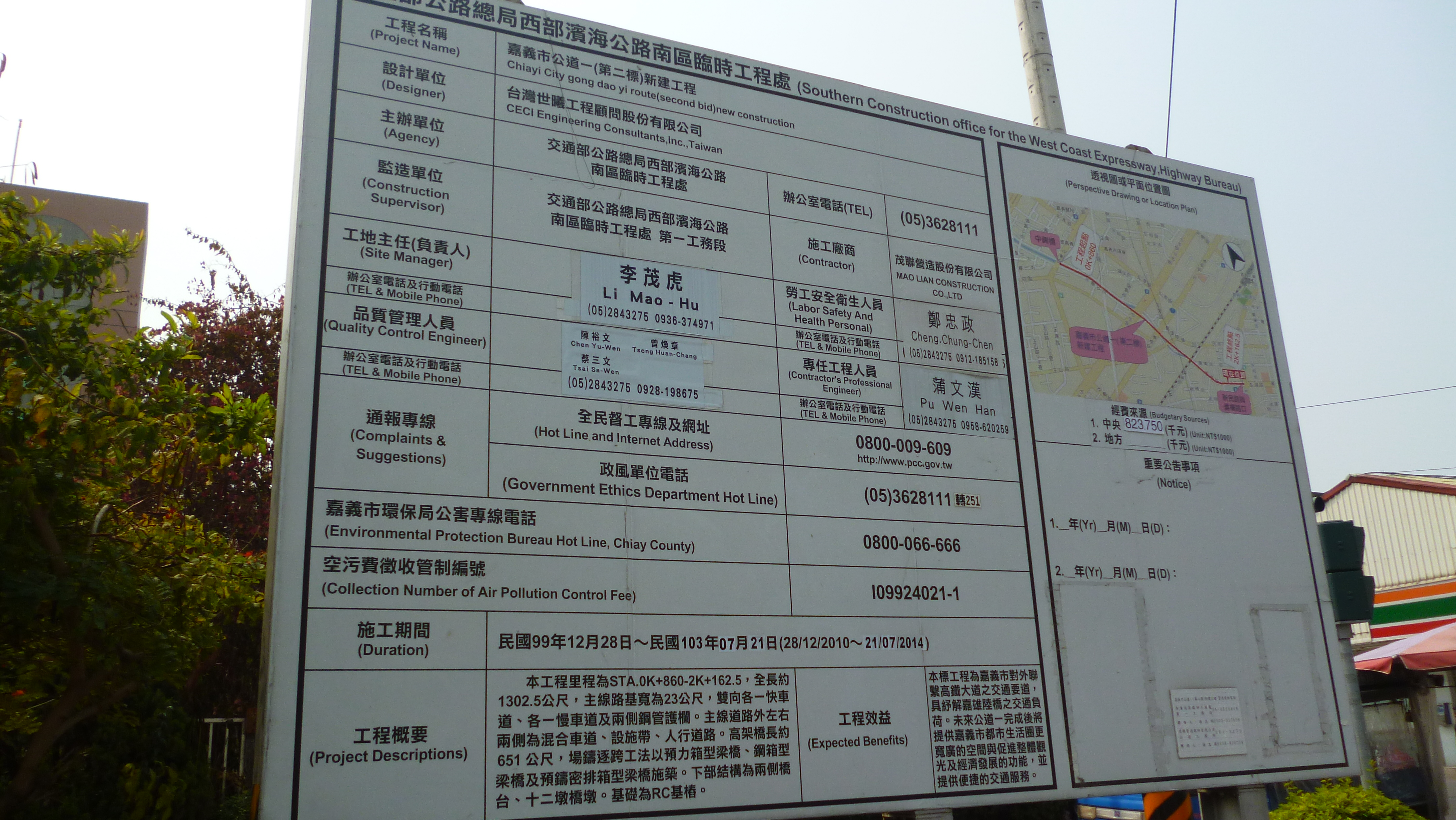 Gong Dao Yi Route (Second Bid) New Construction sign on Chuiyang Road, Chiayi City. Made by West Coast Expressway Southern Region Temporary Engineering Office, Directorate General of Highways, MOTC.